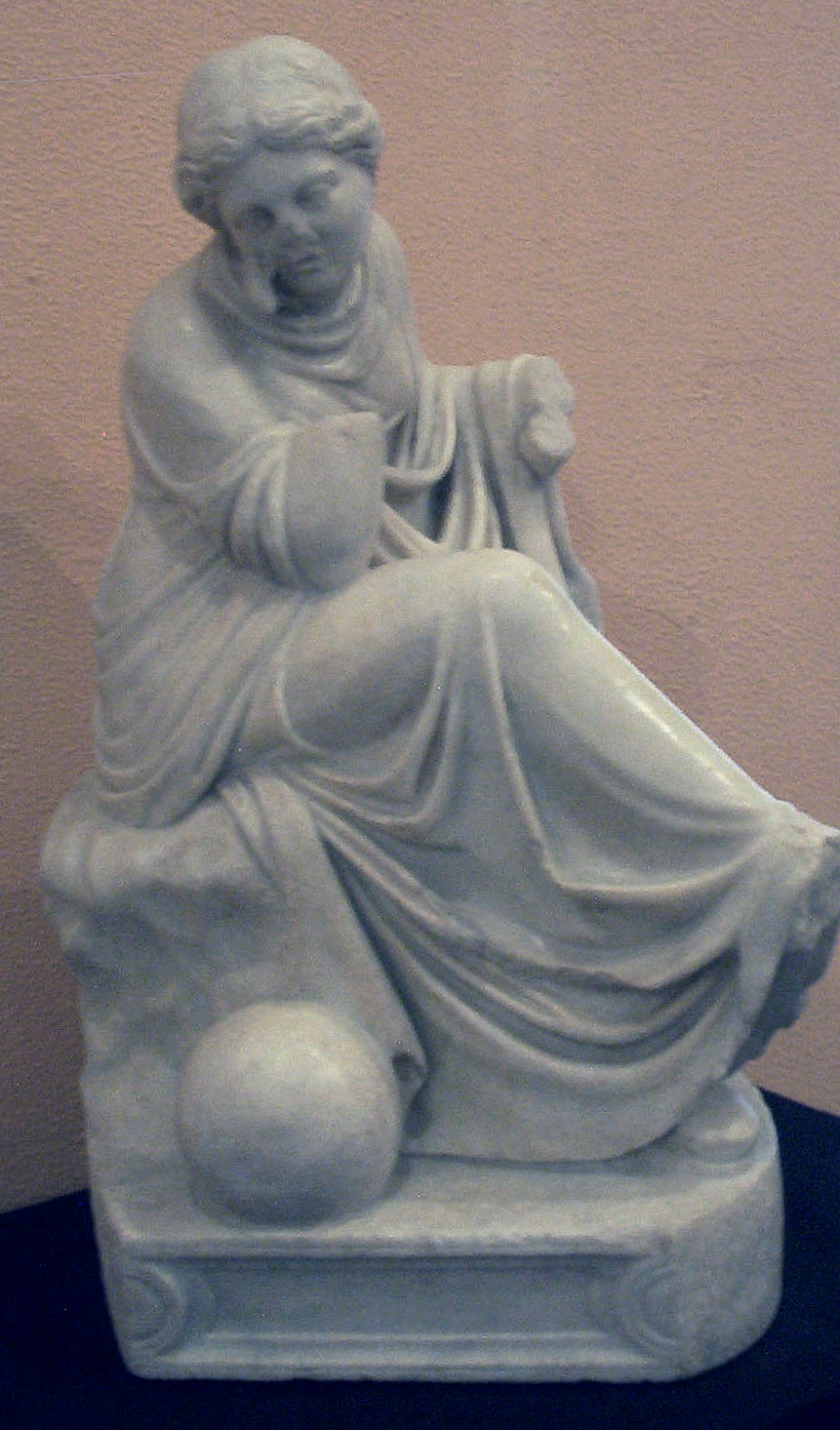 Roman statue of Urania, the muse of Astronomy. At her feet there is a celestial sphere, symbol that represents her.